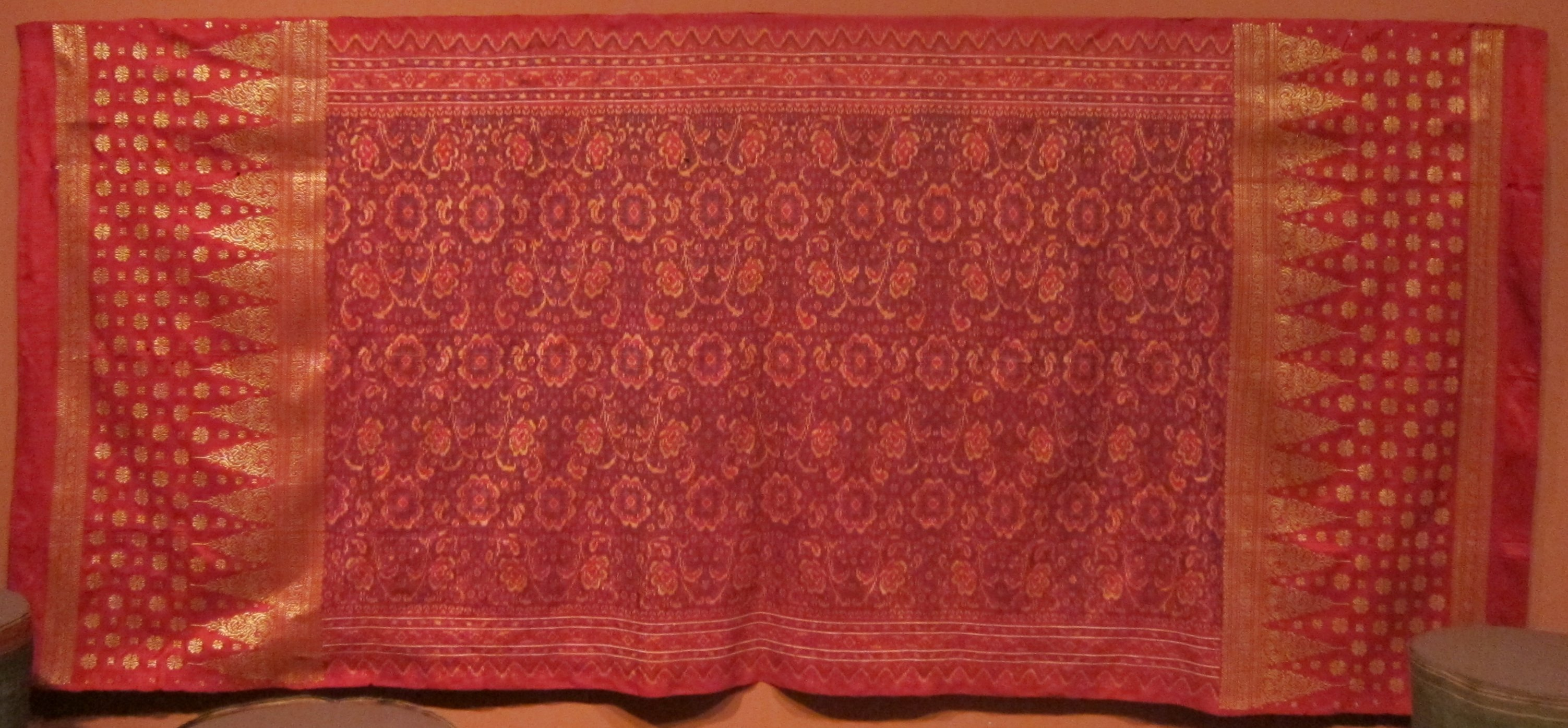 Kain limar (shoulder cloth) from Sumatra, Bangka Island, late 19th century, silk, weft ikat, supplementary weft-weave, Honolulu Academy of Arts